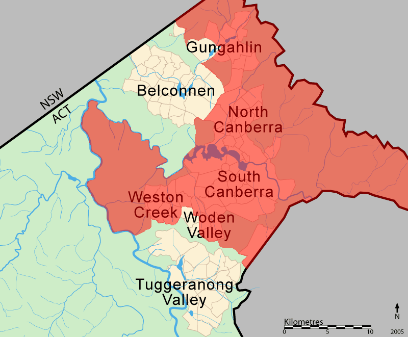 ACT electorate of Molonglo, as depicted at [1]